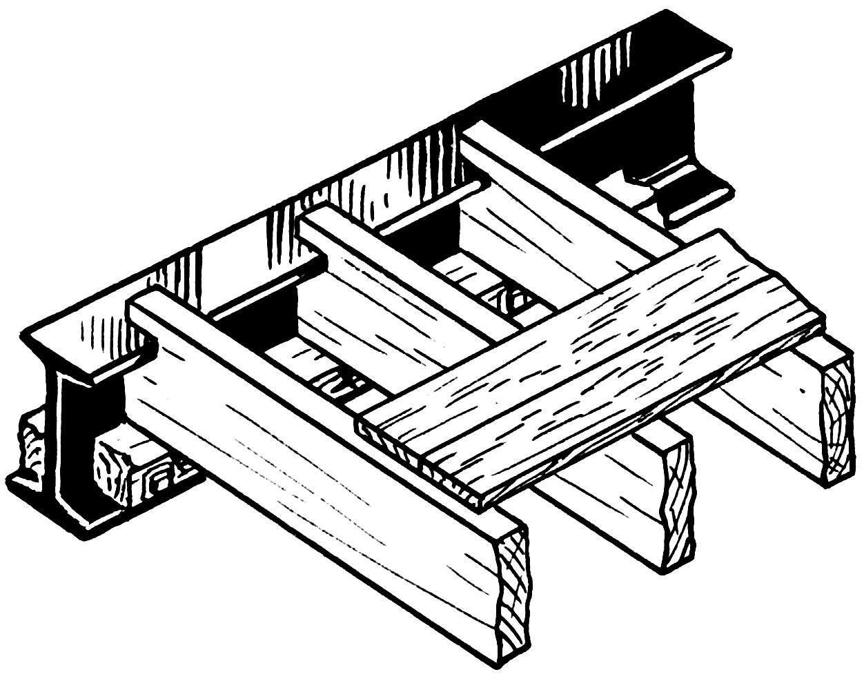 Girder